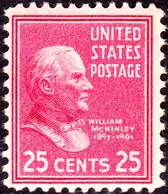 US Postage stamp: William McKinley, Issue of 1938, 25c